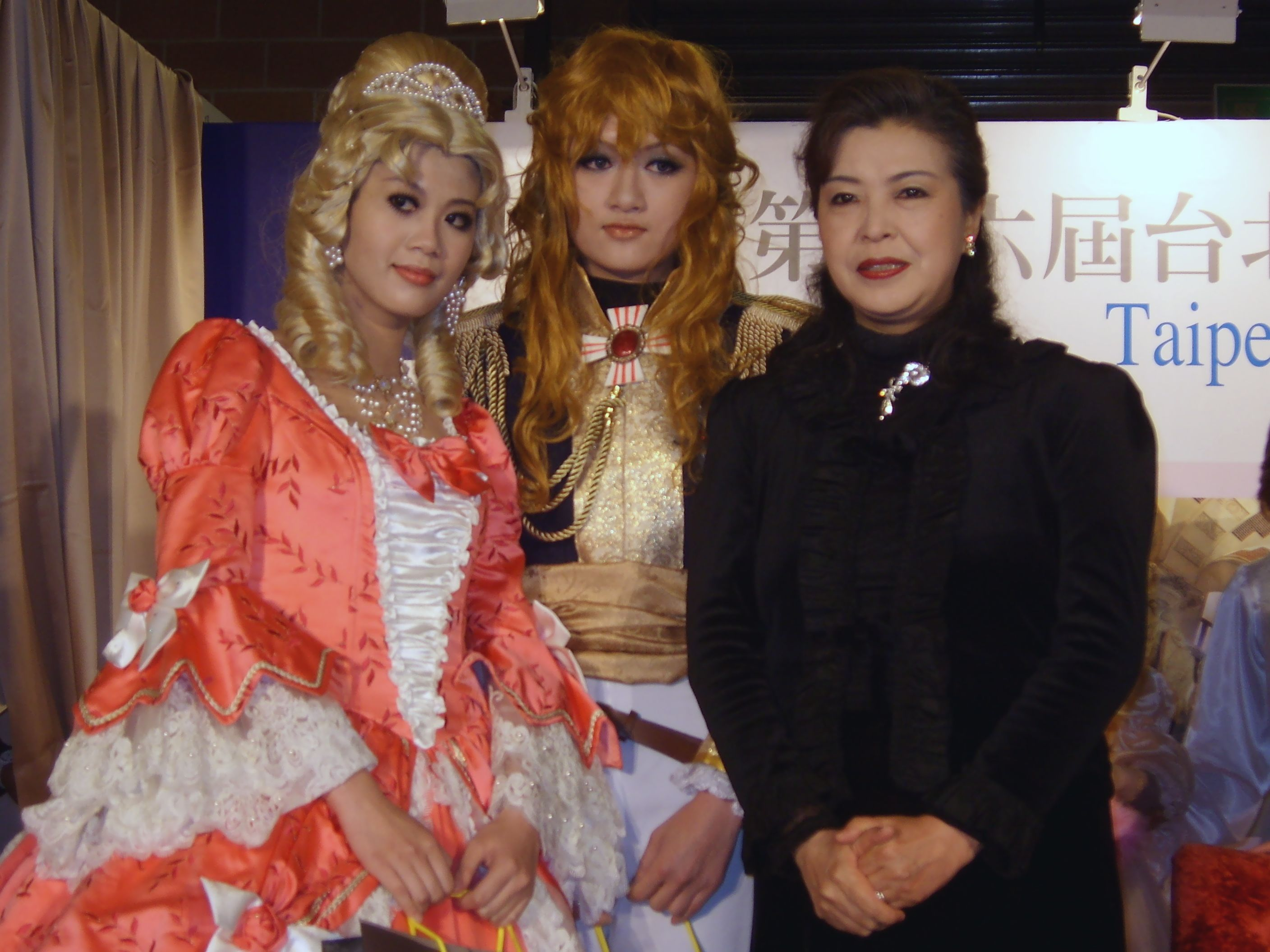 2008 Taipei International Book Exhibition - Opening Ceremony for Comic Pavilion: Riyoko Ikeda (author of The Rose of Versailles, right) and top two from "Romantic Versailles Star Coser".